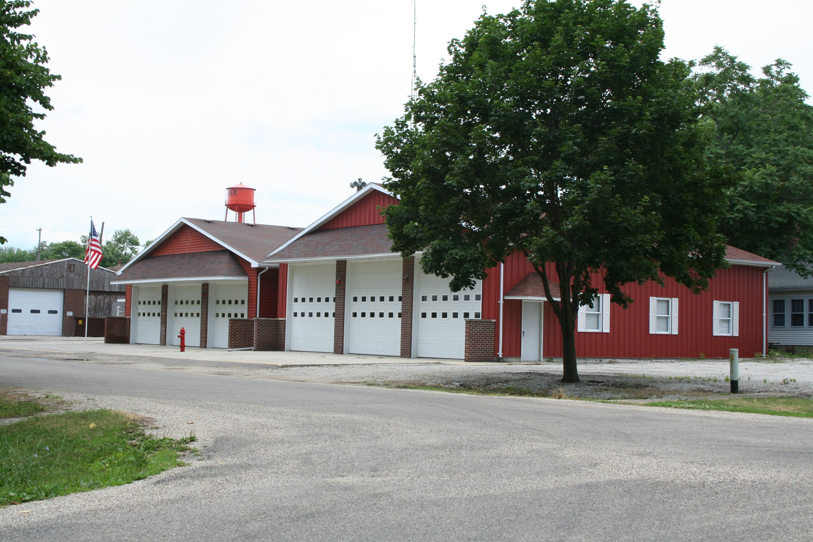 Fisher_Illinois_fire_station_and_water_tower